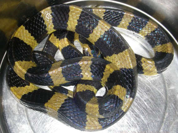 Banded Krait Bungarus fasciatus Daudin 1803 Photo of Banded Krait captured in Binnaguri, North Bengal, India on 19 Sep 2006. Self-work. AshLin 20:28, 19 September 2006 (UTC)